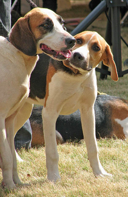 Fair on the Yare - Dunstan Hall Harrier Hounds (detail)